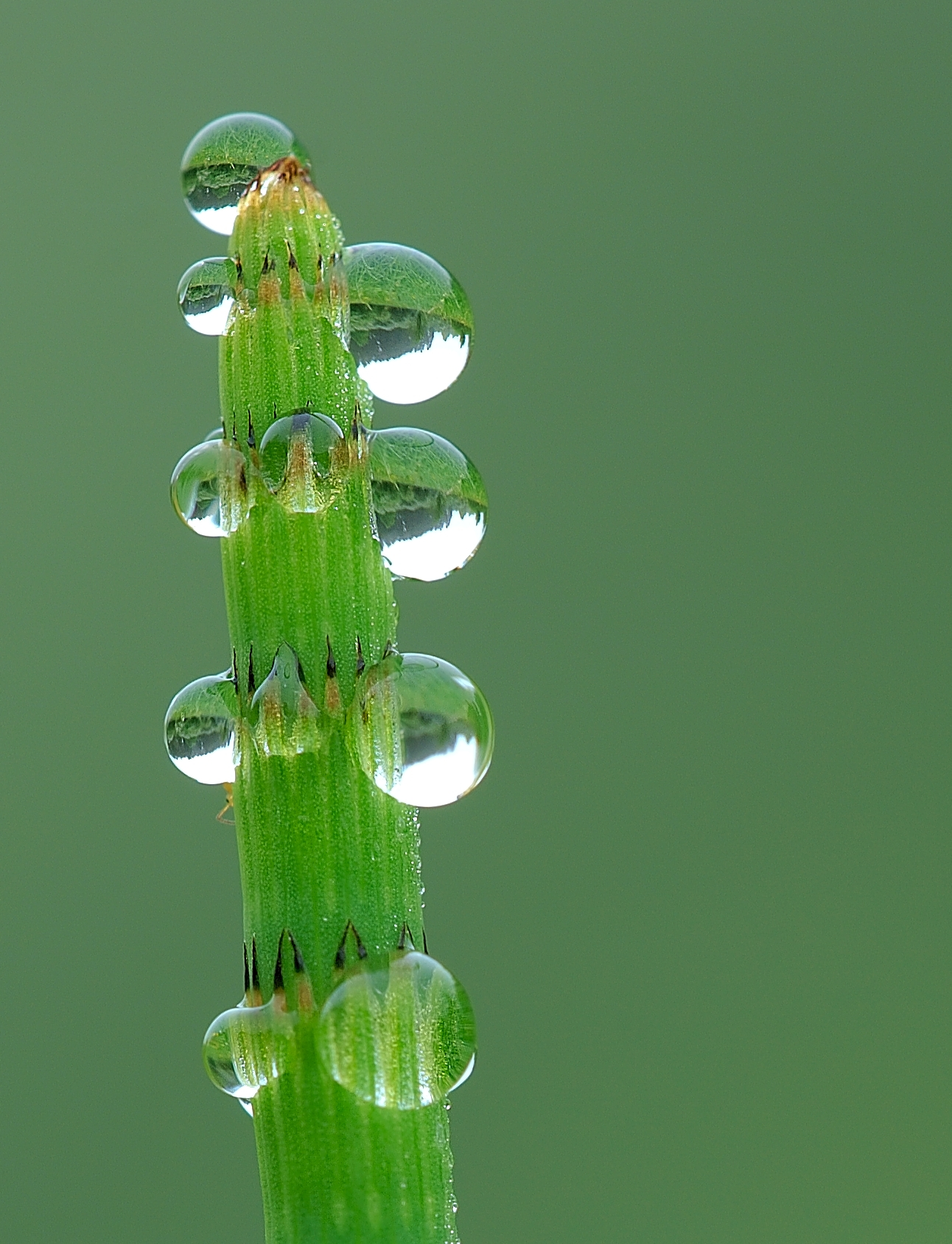 Guttation on a Equisetum fluviatile in Belgium natural reserve "Marie Mouchon"